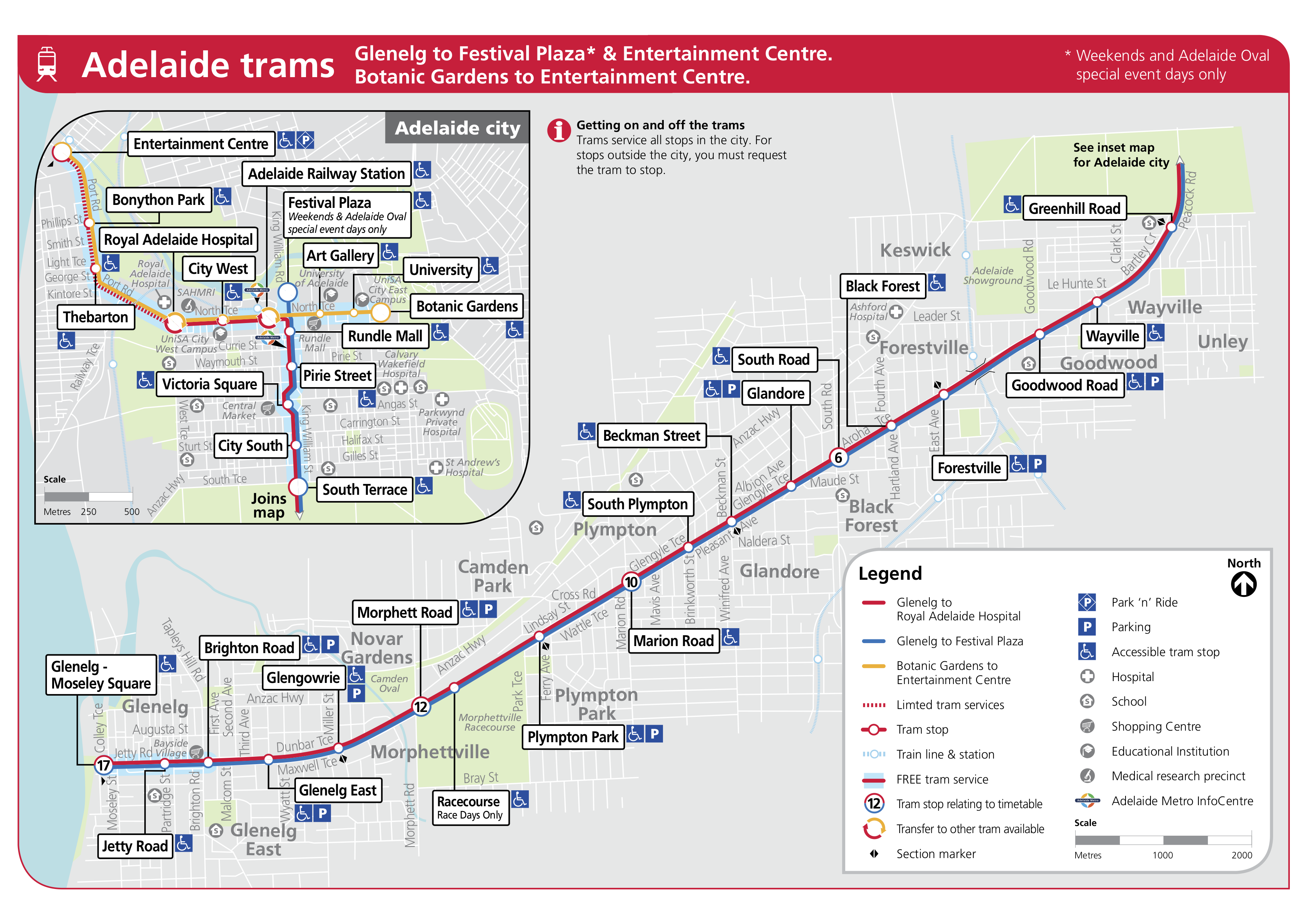 An Adelaide Metro tramways route map published in 2019 by the South Australian Government Department for Planning, Transport and Infrastructure